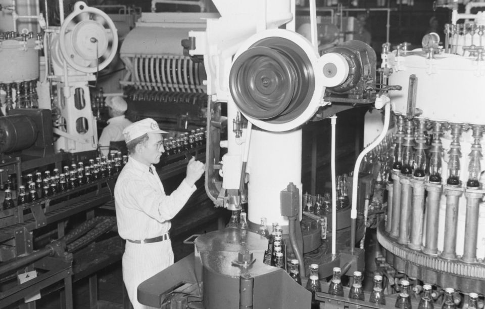 We see two employees working at bottling plant of Coca-Cola Canada Ltd. located at 200 De Bellechasse Street East in Montreal, Canada.